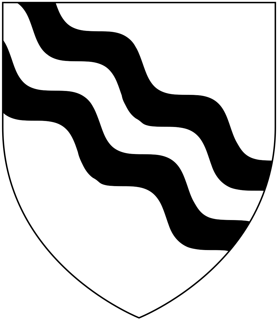 Arms of Stapledon of Stapledon in the parish of Cookbury, Devon (Bishop Walter de Stapledon (1261-1326), Bishop of Exeter): Argent, two bends undée sable. Source: Pole, Sir William (d.1635), Collections Towards a Description of the County of Devon, Sir John-William de la Pole (ed.), London, 1791, p.502